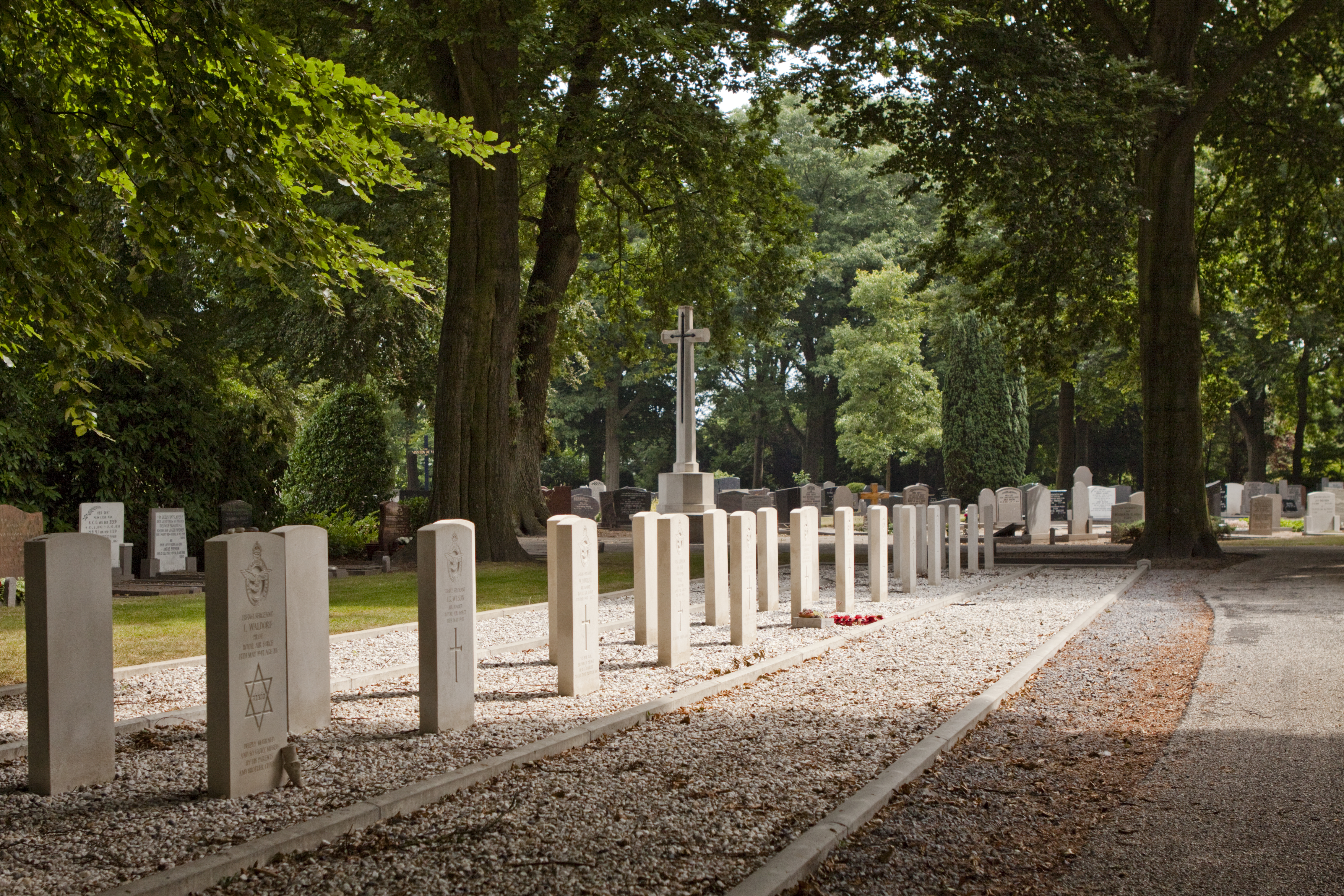 Harderwijk General Cemetery